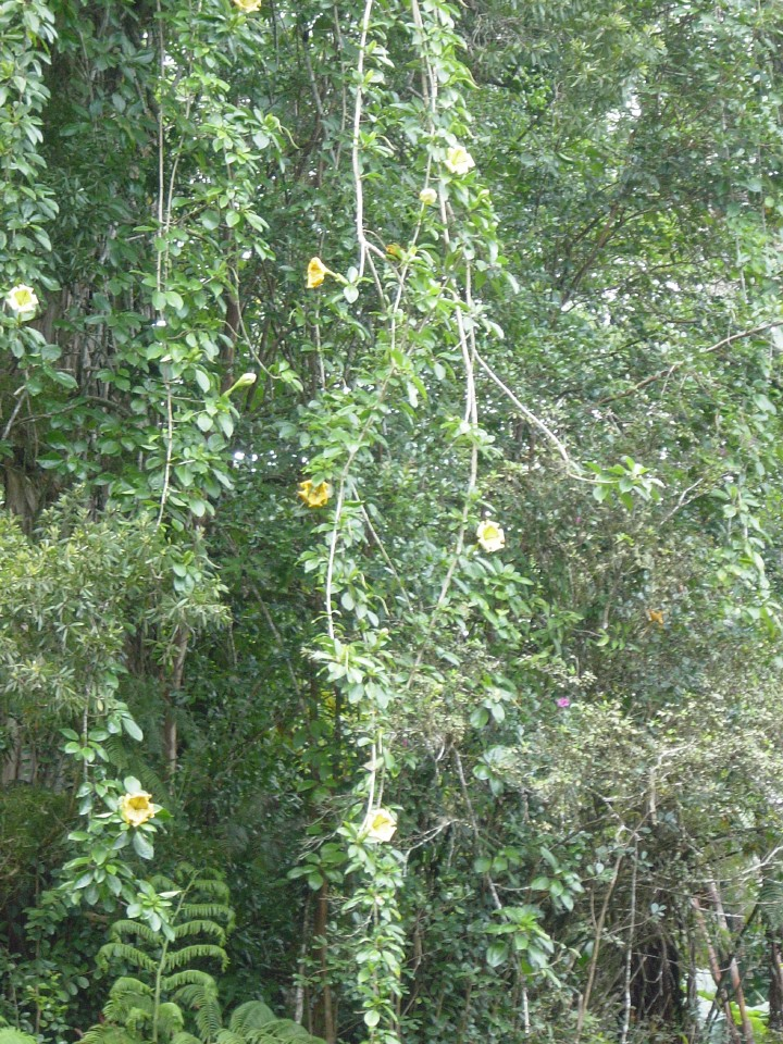 Wild Cup of Gold found in Big Island of Hawaii. The blossoms are 8+ inch in diameter. The vine of the plant climbed all over other trees in the woods.